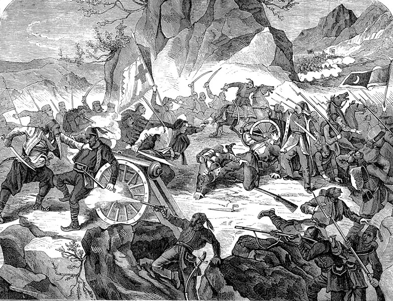 Illustration of the Battle of Vučji do. From the Serbian illustrative magazine "Orao" (1877).